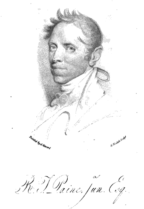 Robert Treat Paine, Jr. (1773 - 1811), American poet